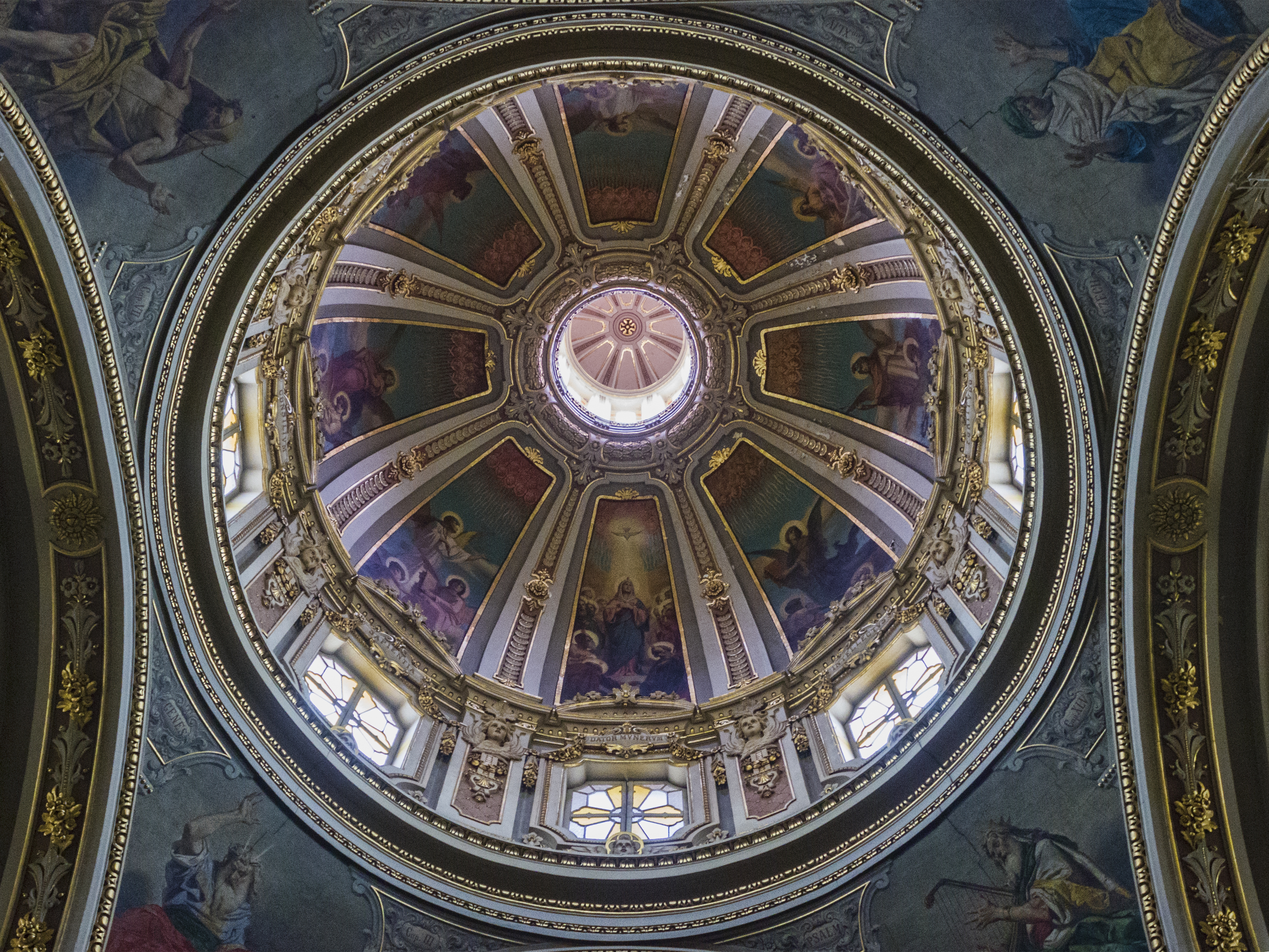 This media is about Maltese cultural property with inventory number 00669.